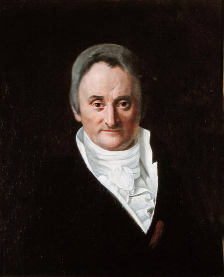 Portrait of Philippe Pinel; oil on canvas.